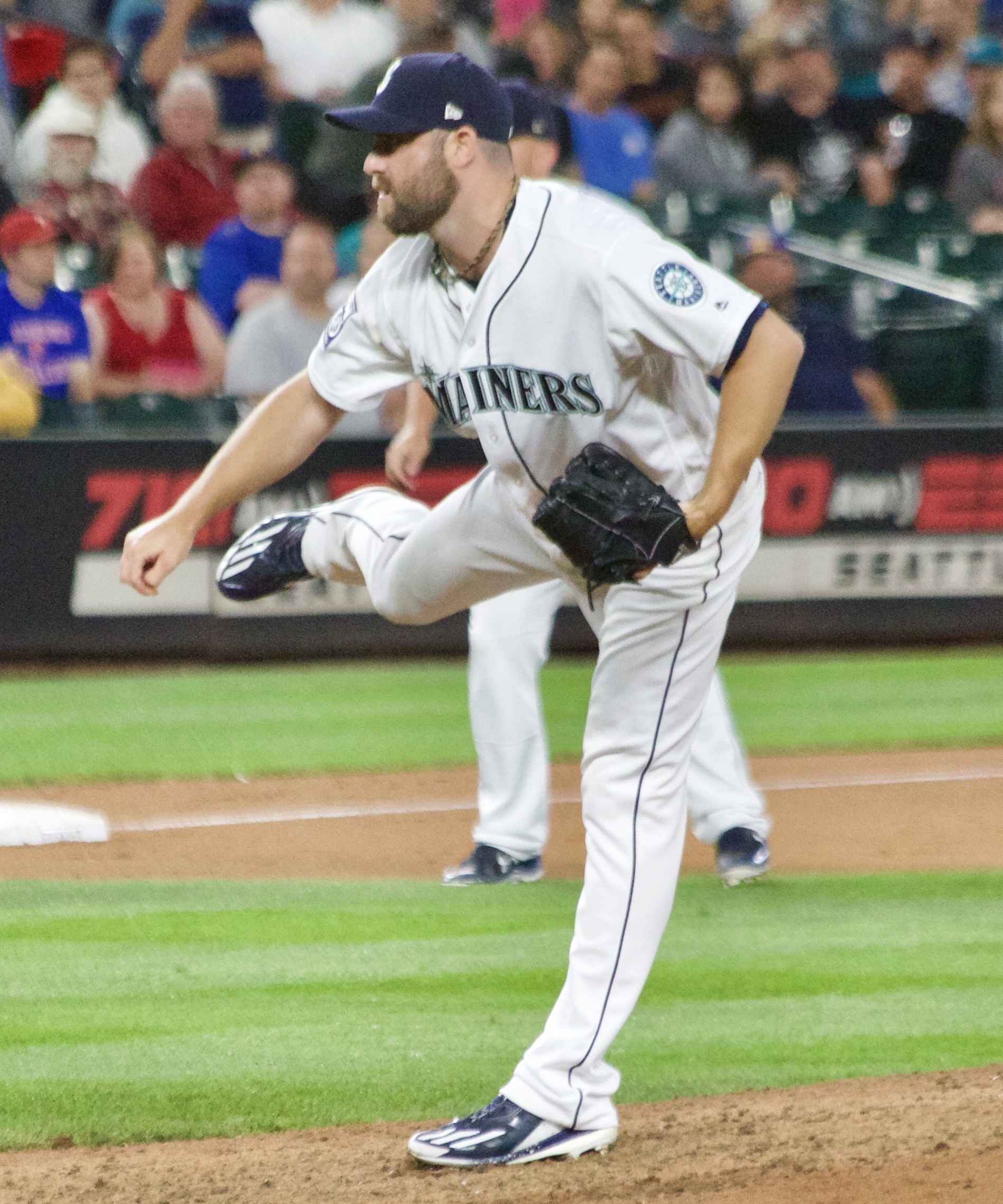 Tony Zych delivers a pitch for the Seattle Mariners during a 2017 game against the Philadelphia Phillies at Safeco Field in Philadelphia.